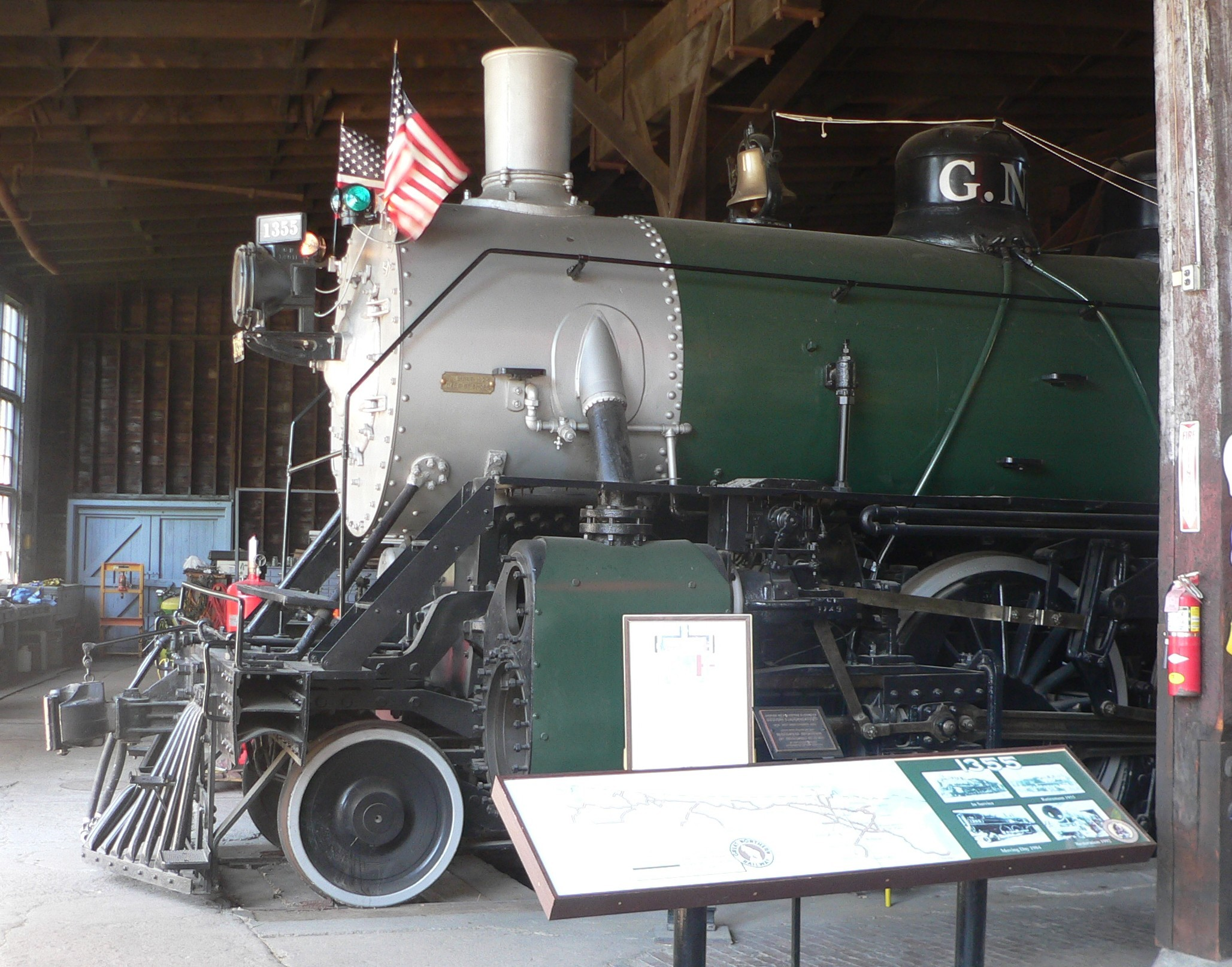 Great Northern Steam Locomotive No. 1355, on display at Milwaukee Railroad Shops in Sioux City, Iowa.